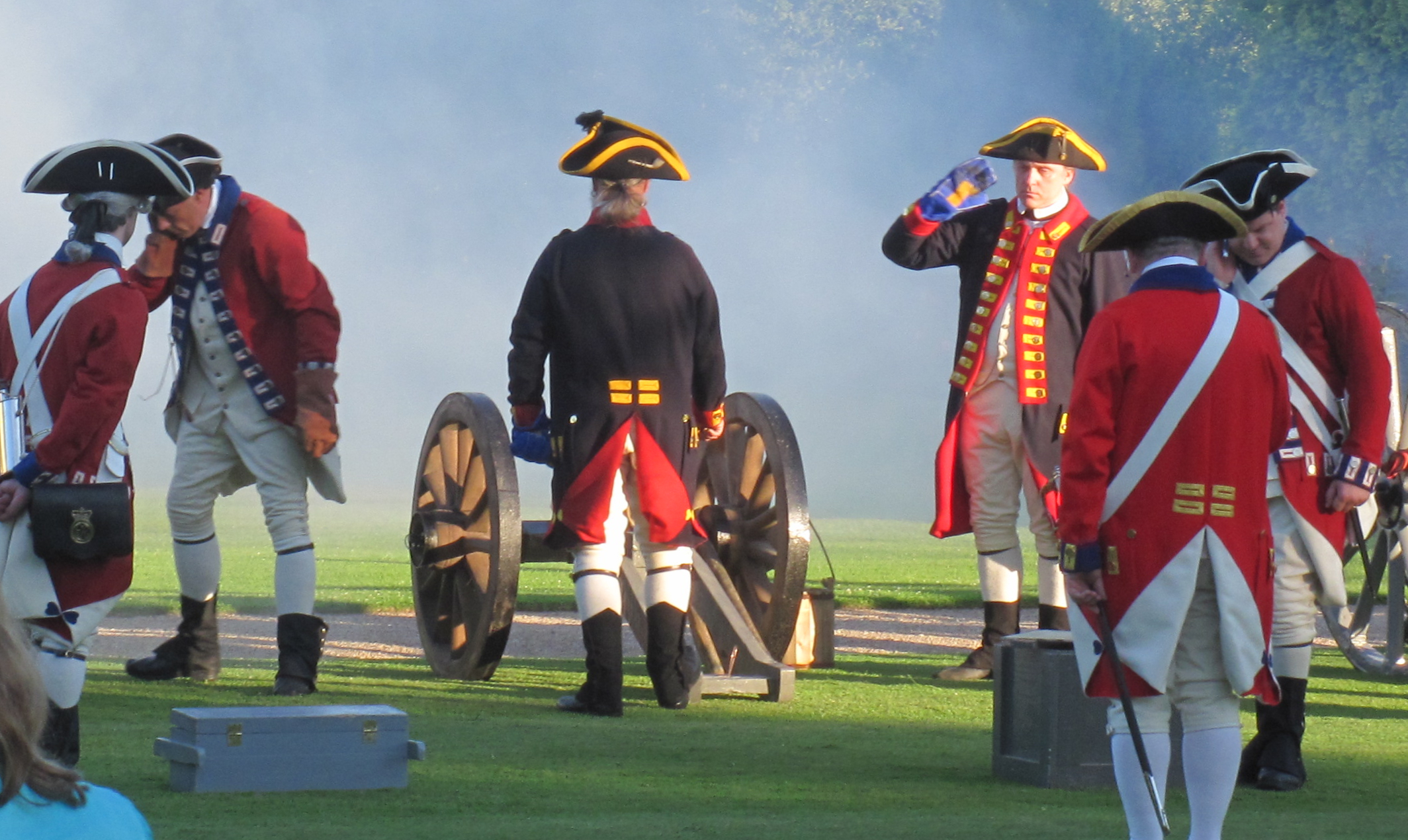 Queen's Official Birthday reception at Government House, Jersey, 11 June 2010